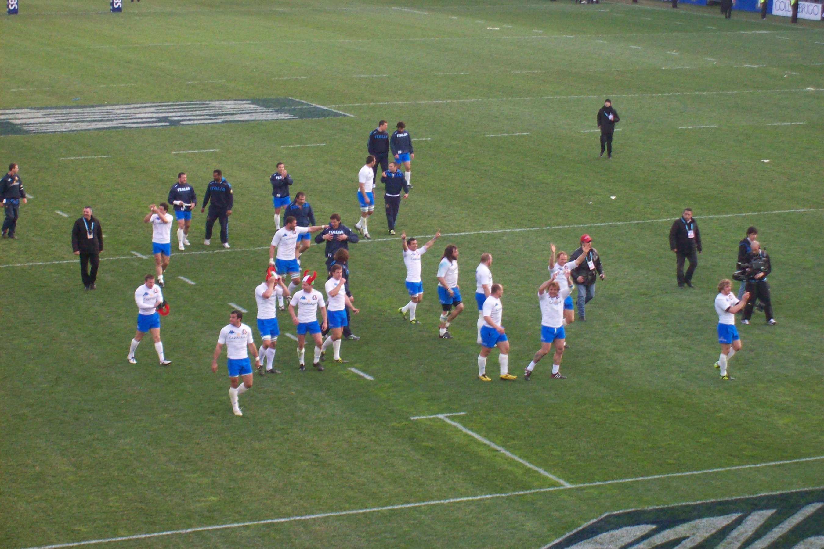 Italy players celebrate after the win 22-21 vs France in the 2011 Six Nations